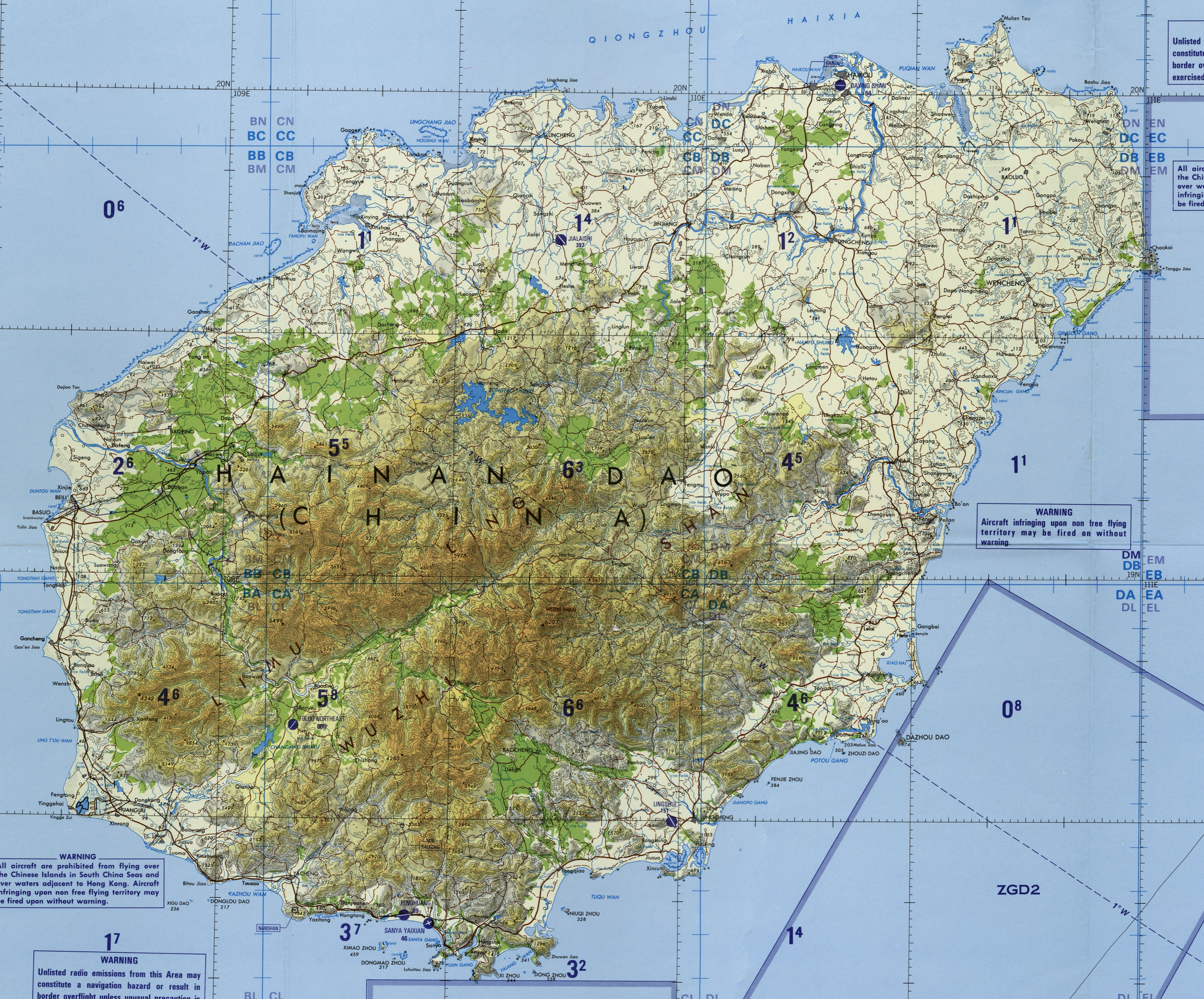 Topographical map of Hainan Province, China